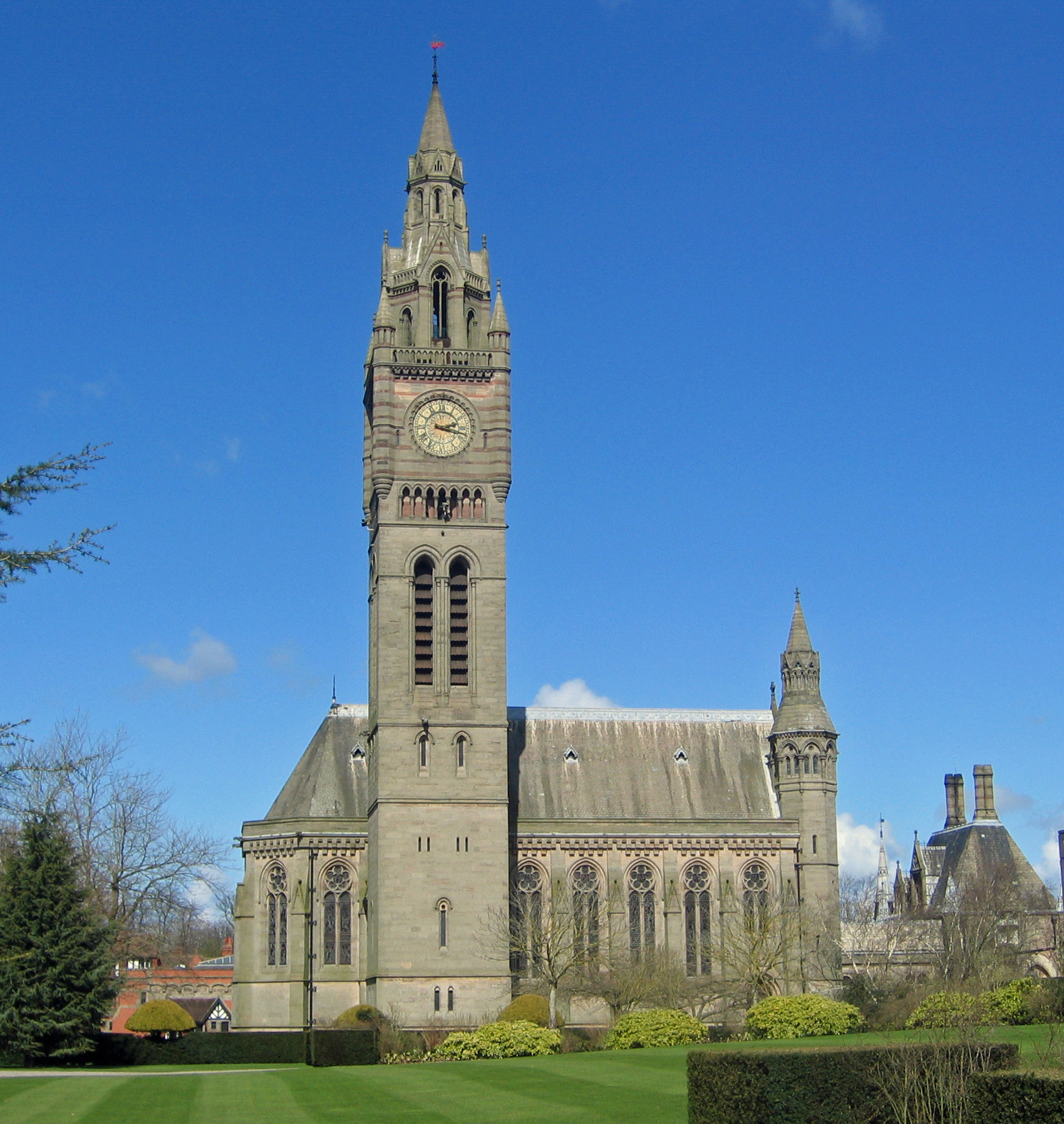 Photograph of the chapel at Eaton Hall, Cheshire, England from the south